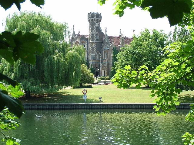 Oakley Court Hotel. Looking south from Dorney Lake Park across the Thames. This is the Oakley Court Hotel, the building once used in the Hammer Film Production Horror series of over 200 movies!